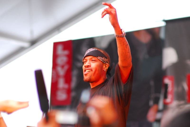 Redman on stage in 2007.